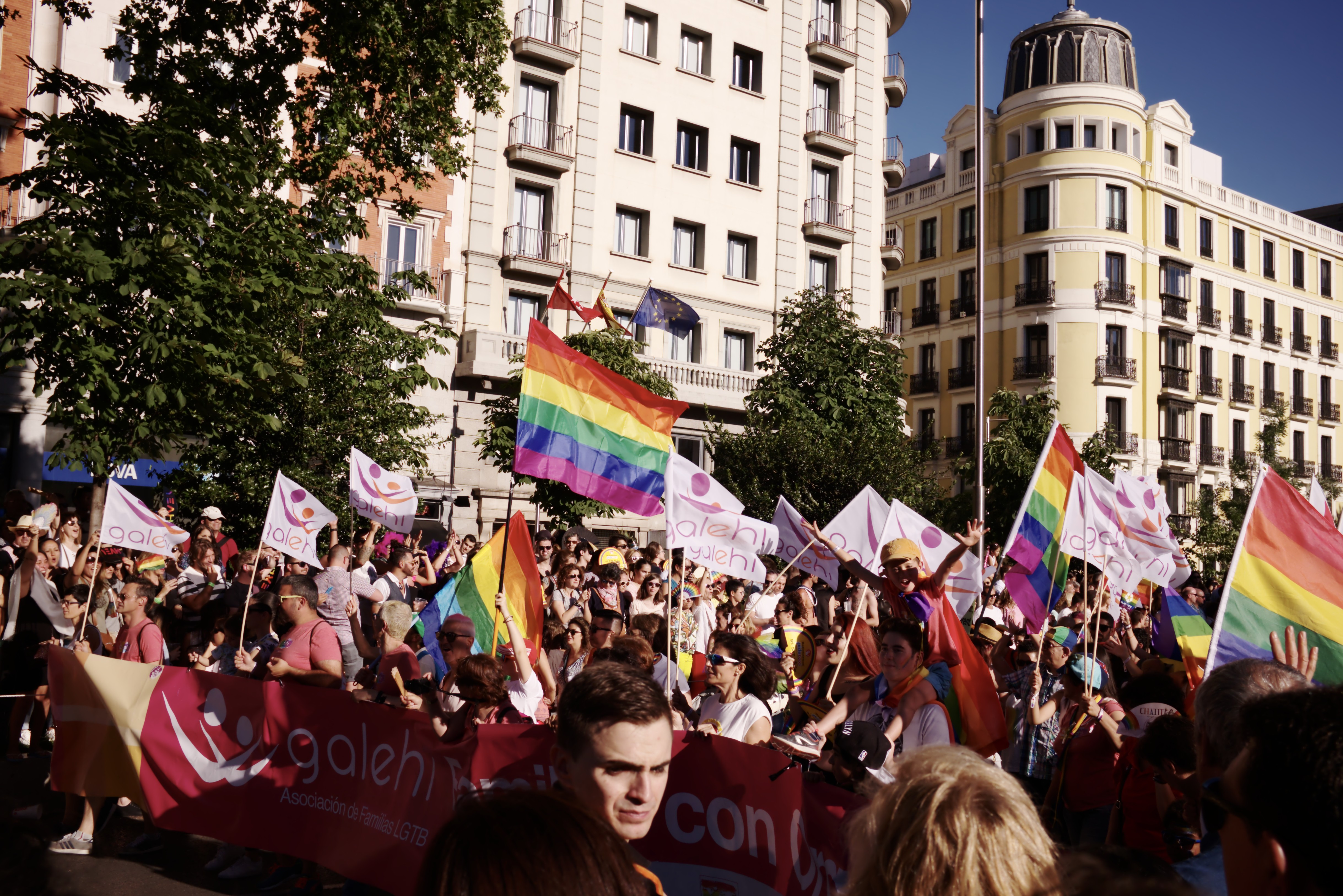 Description needed.